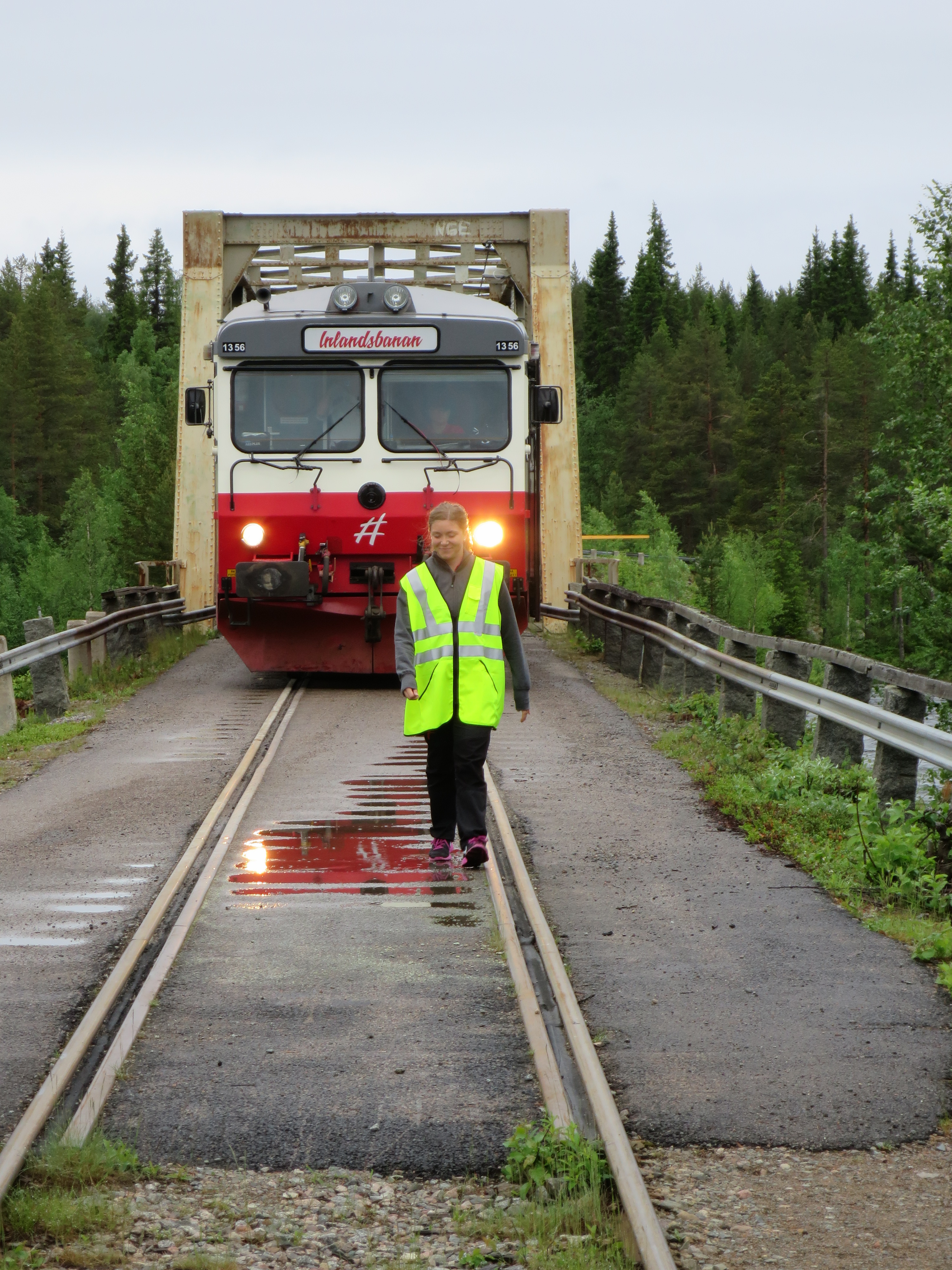 Road/Railway Bridge crossing Piteälven, Inlandsbanan, Sweden